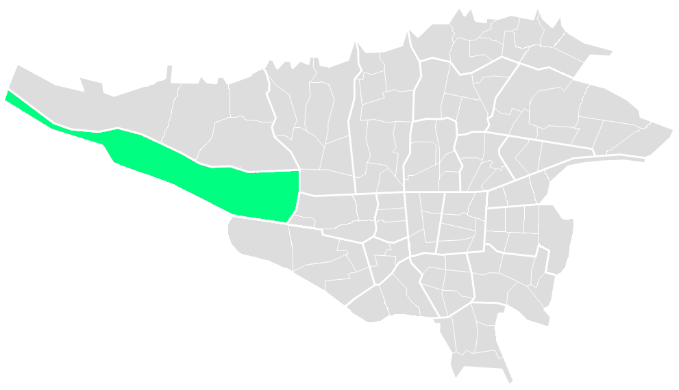 Region 21 of Tehran